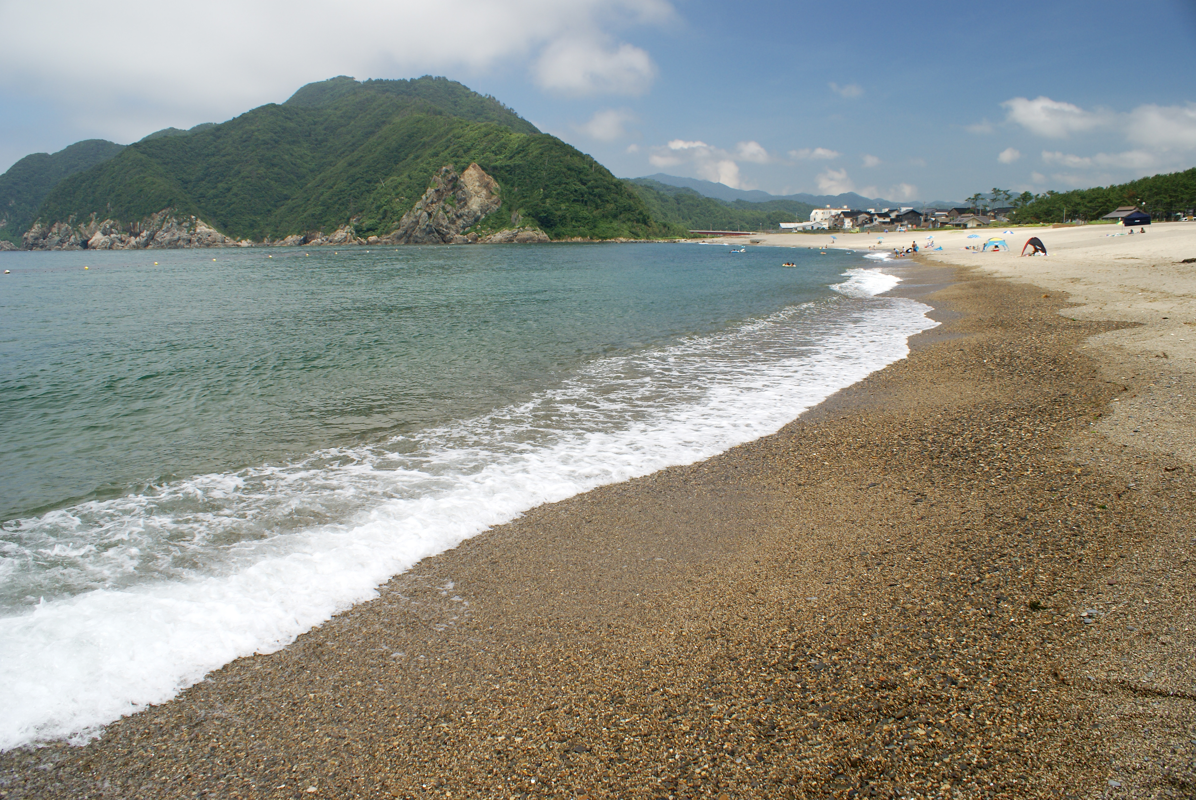 Hamasaka Kenmin Sun-beach in Shinonsen, Hyogo prefecture, Japan